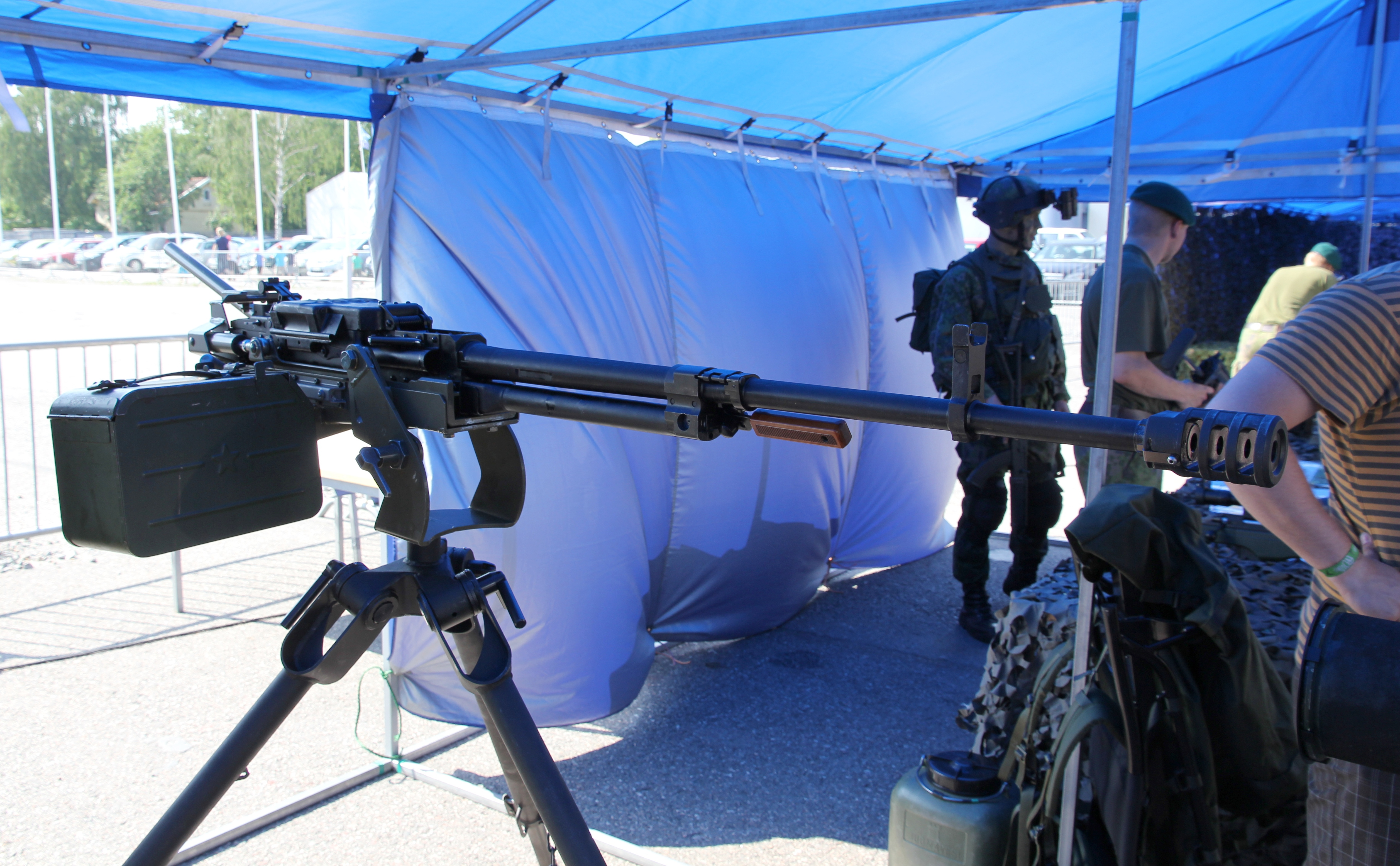 12,7 mm NSV heavy machine gun used by Finnish military. Photographed during Finnish Navy 2011 anniversary in Turku Forum Marinum.